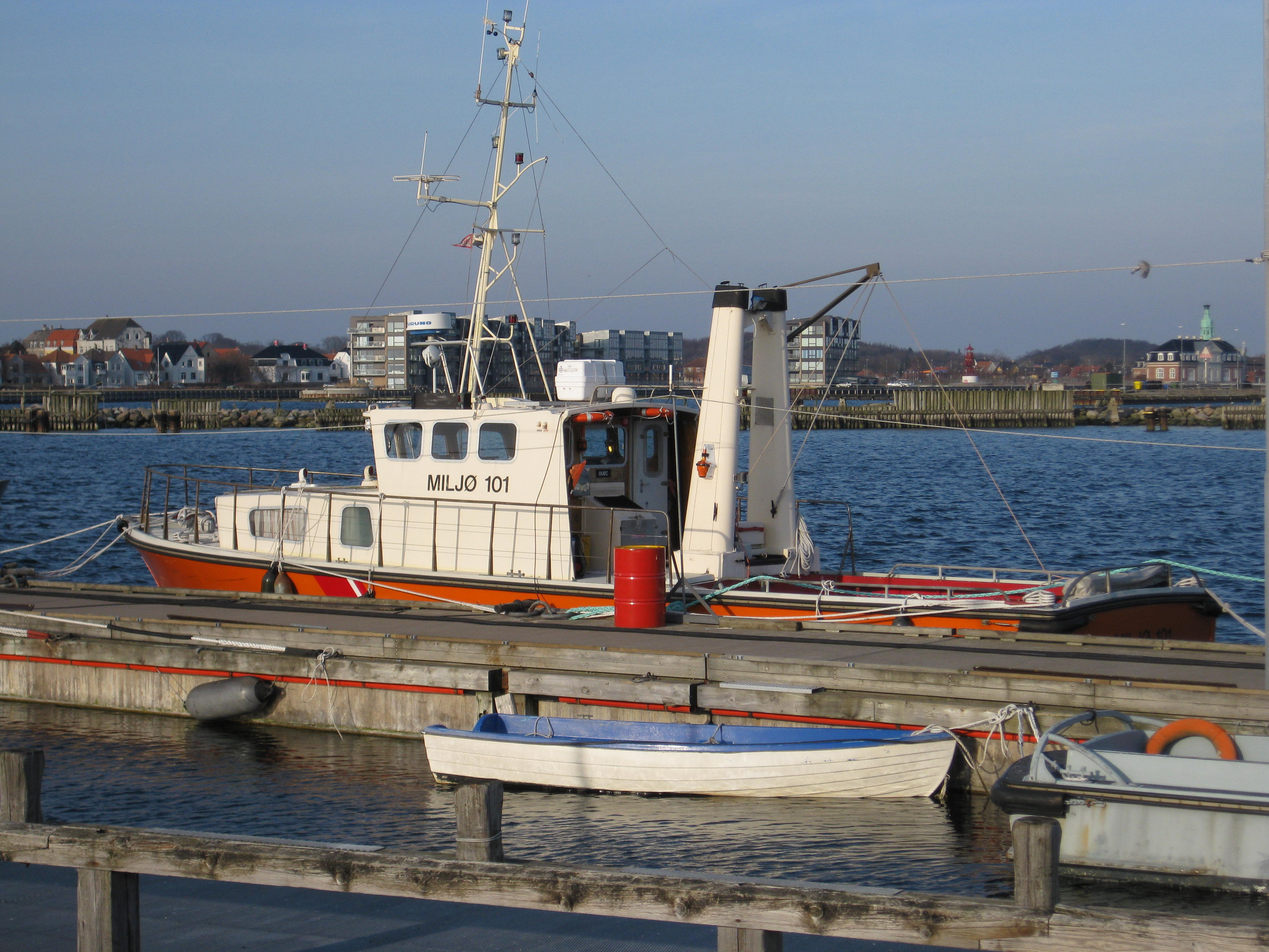 Miljoe 101 at navalbase Korsør